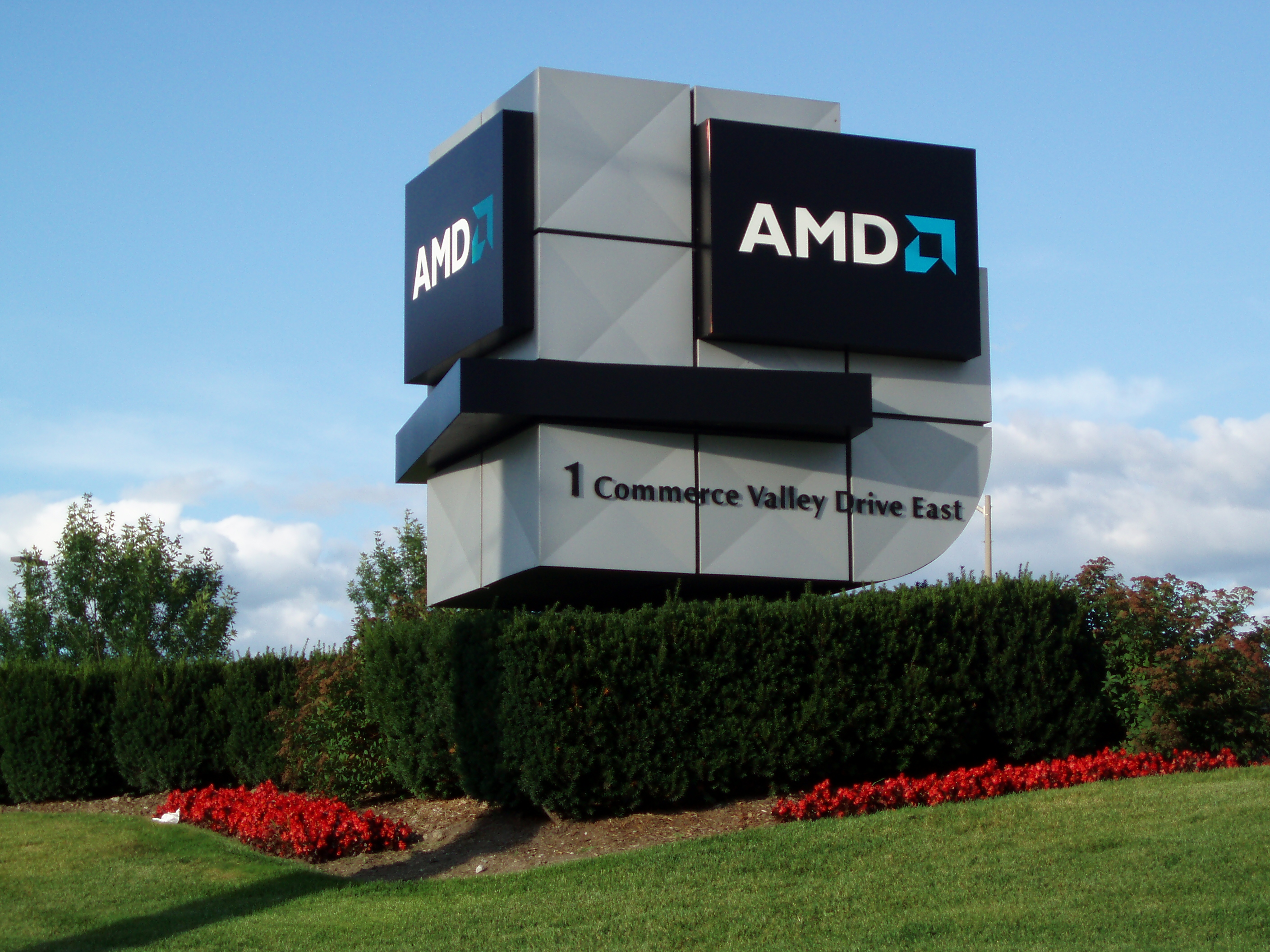 AMD Markham Canada